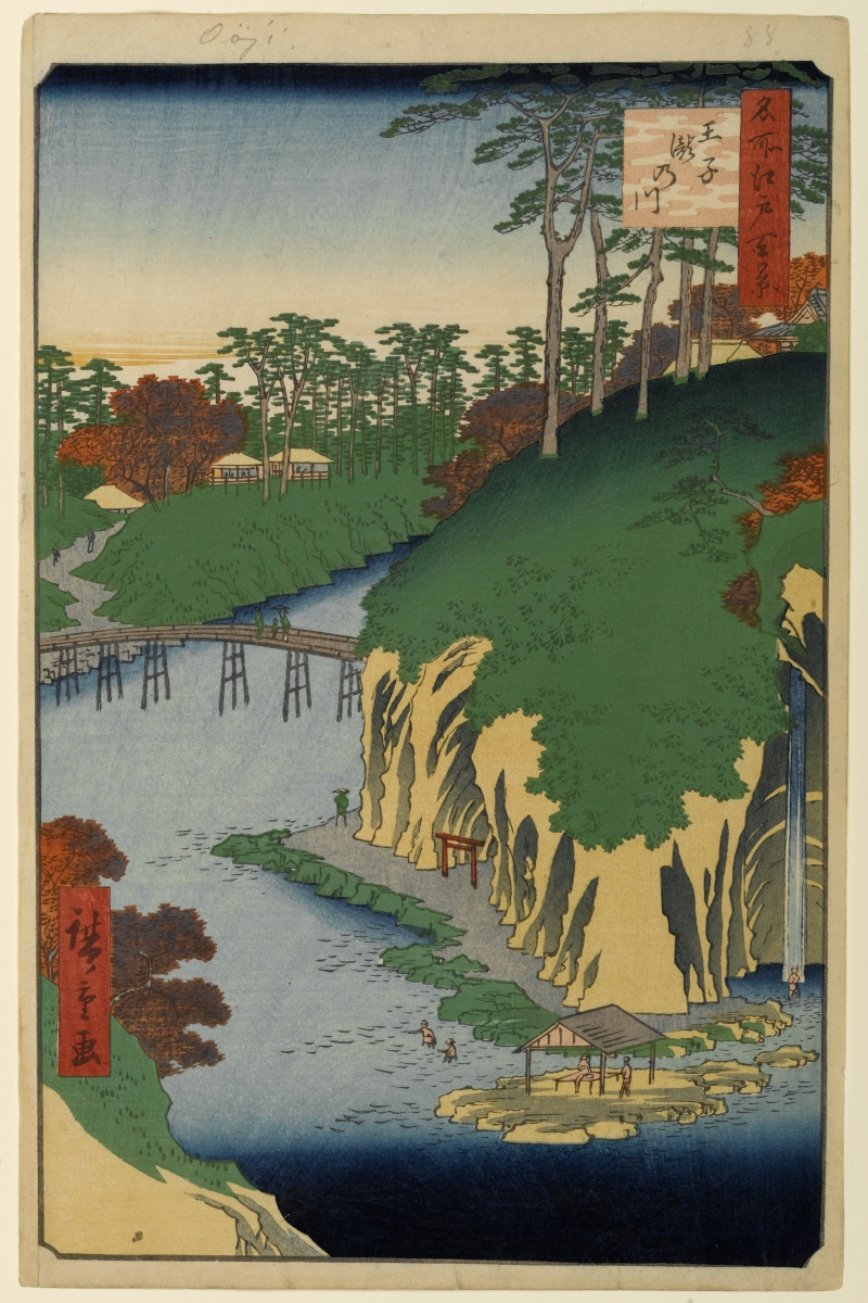 Part of the series One Hundred Famous Views of Edo, no. 088, part 3: Autumn.